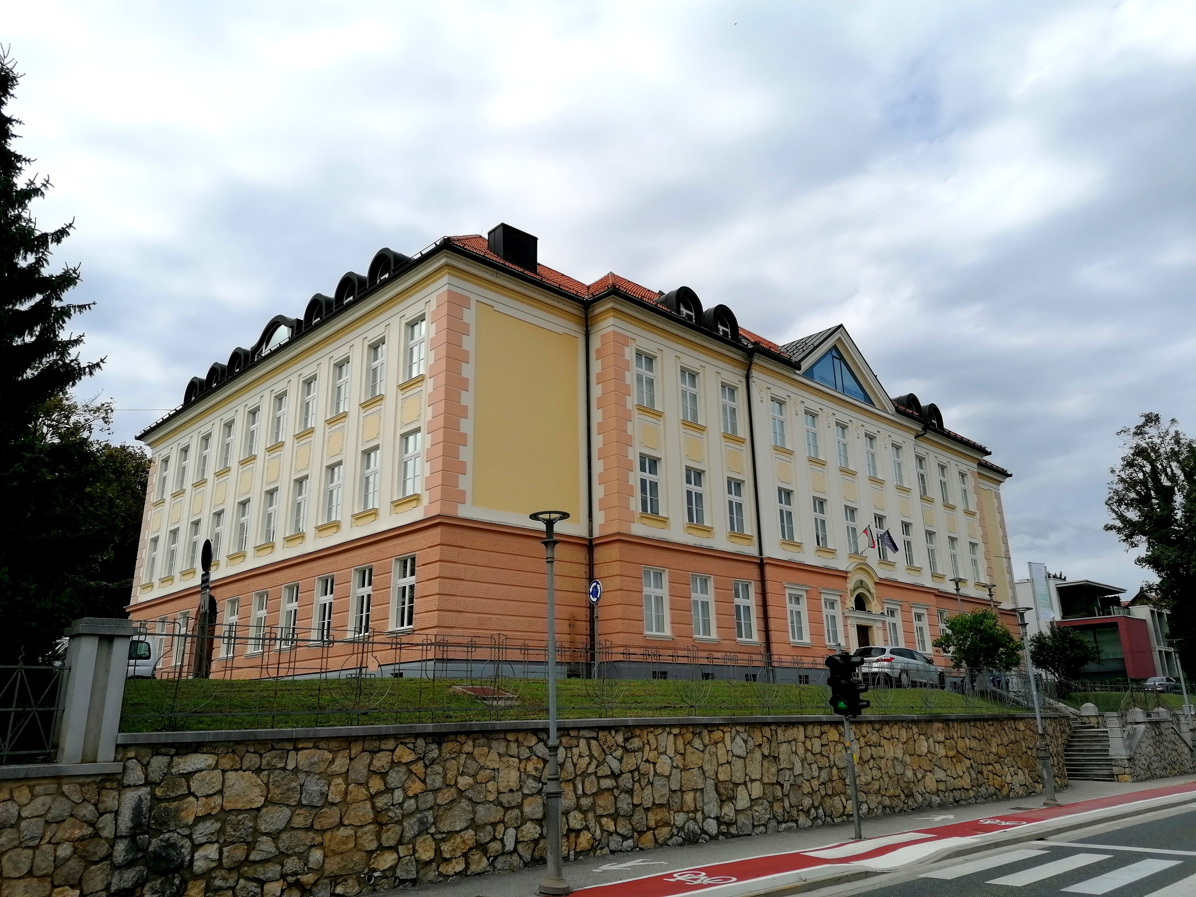 Novo Mesto Grammar School